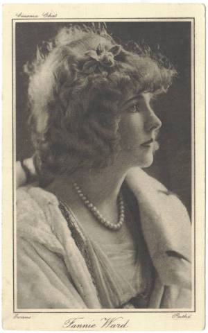 UK portrait card of Fannie Ward